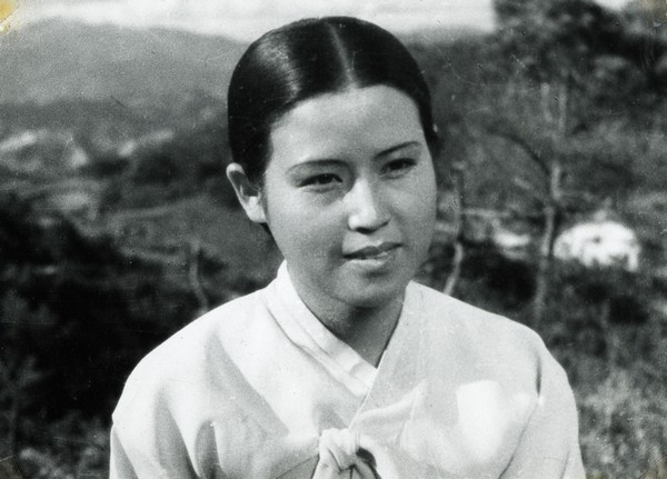 Film scene of the 1949 movie A Hometown in Heart, showing Choi Eun-hee.